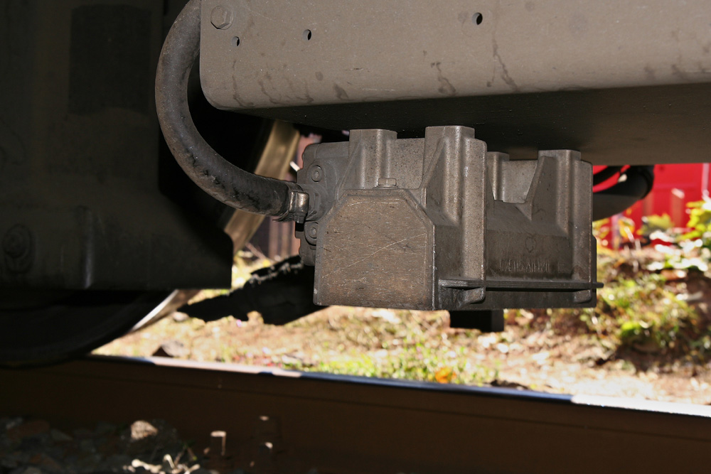 An antenna for the Linienzugbeeinflussung, a cab signalling system, on a DB class 189 locomotive.